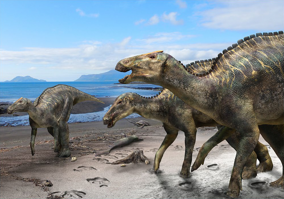 Life reconstruction of Kamuysaurus japonicus gen. et sp. nov. with a carcass of a mosasaur (Phosphorosaurus ponpetelegans), a sea turtle (Mesodermochelys undulates), and shells of ammonoids (Patagiosites compressus and Gaudryceras hobetsense) and bivalves (Nannonavis elongatus) on the beach (above). The individual of Kamuysaurus in the foreground is reconstructed based on the assumption of the presence of a supracranial crest, similar to a sub-adult form of Brachylophosaurus. The individual behind it is reconstructed without the crest.